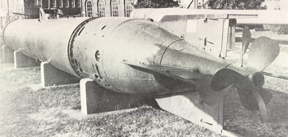 A picture of the stern end of a type 2 or 4 kaiten at the Washington fleet yard.